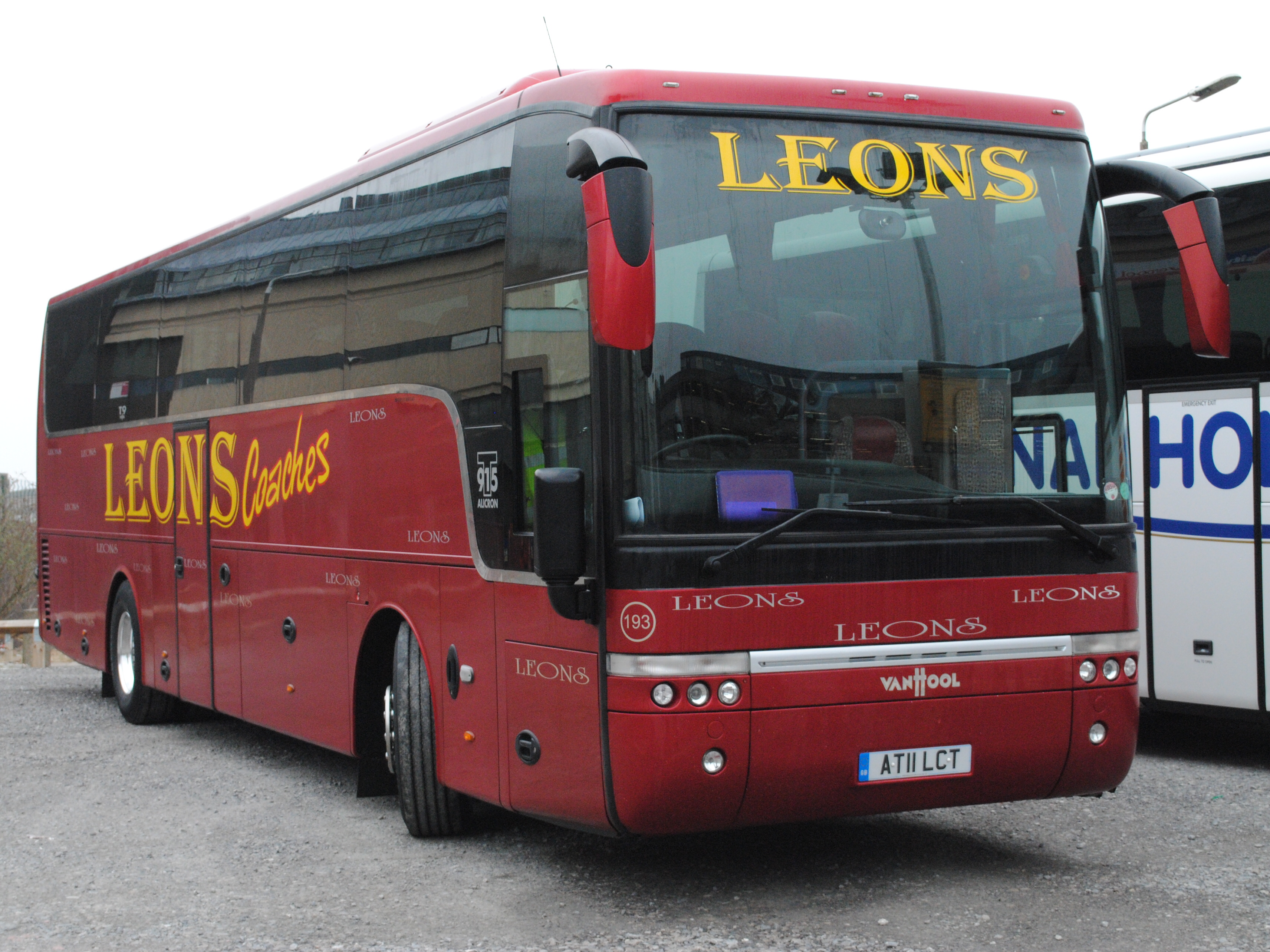 VDL Van Hool T915 Alicron